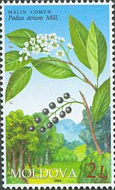 Stamp of Moldova Prunus padus